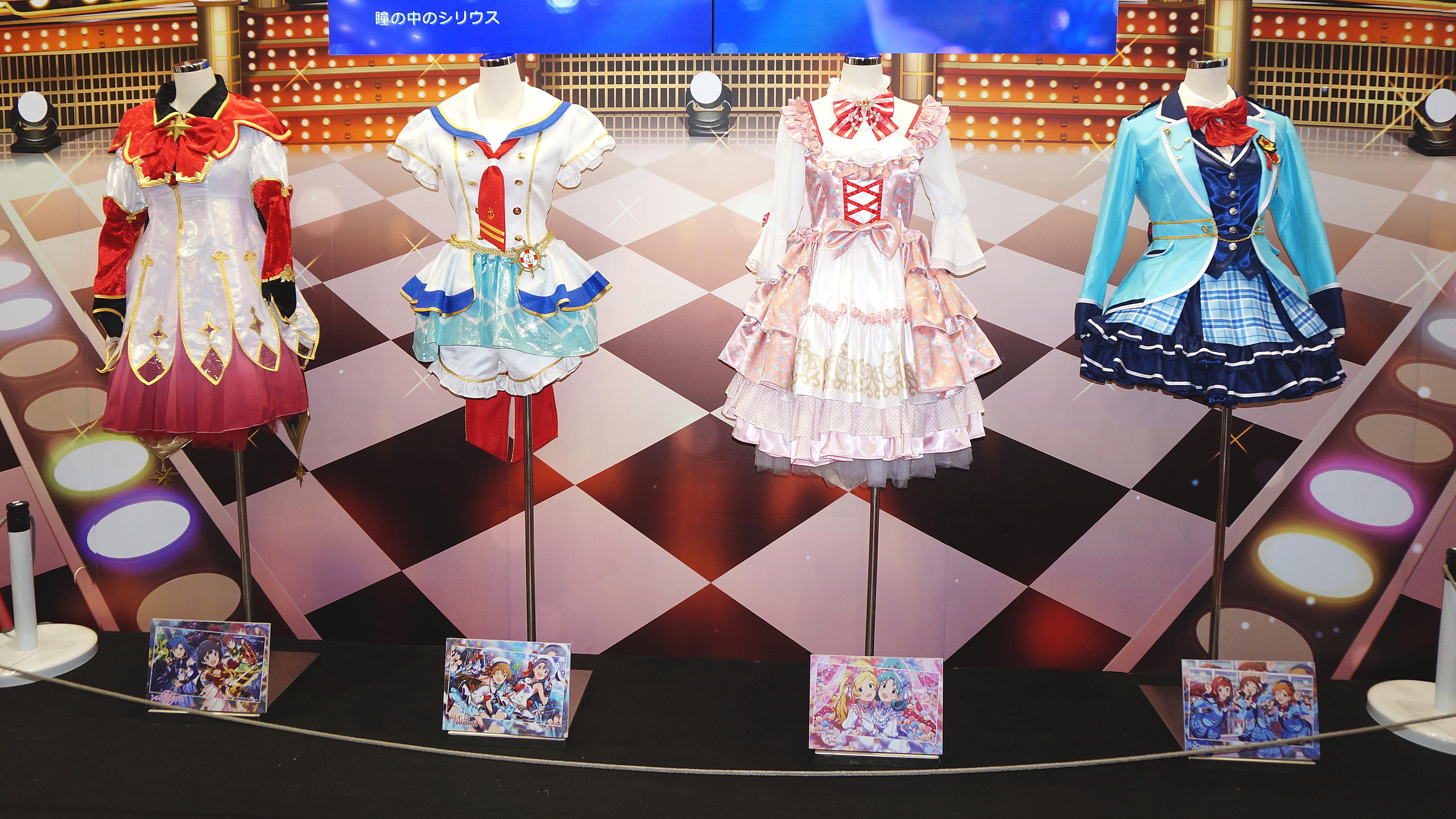 The stage clothes of "The Idolmaster Million Live! Theater Days" at Ichiban Japan, 2019 Comic Exhibition.